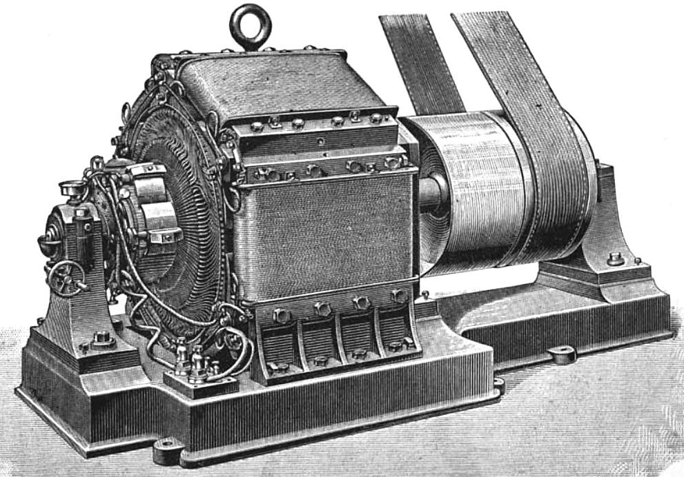 Rene Thury's six pole dynamo for which he was awarded a patent in 1883. Original caption: "Thury's Dynamo". Original Public Domain text accompanying the image: Thury's dynamo - A very similar machine, having a drum armature being built along a hollow core of laminated iron, was designed by Thury. Fig. 159 shows a six pole machine based on this principle. The field magnets, with slab cores are bolted together in a strong hexagonal shape with six inward facing pole pieces of alternate polarity. The windings on the drum must embrace chords of 60 degrees, and six brushes must be used unless the armature or collector bars are respectively cross connected at 120 degrees all around. Machines of this type are made from 1300 kilogrammes weight giving 22,000 watts at 600 revolutions per minute, to 4500 kilogrammes, giving 66,000 watts at 350 revolutions per minute.